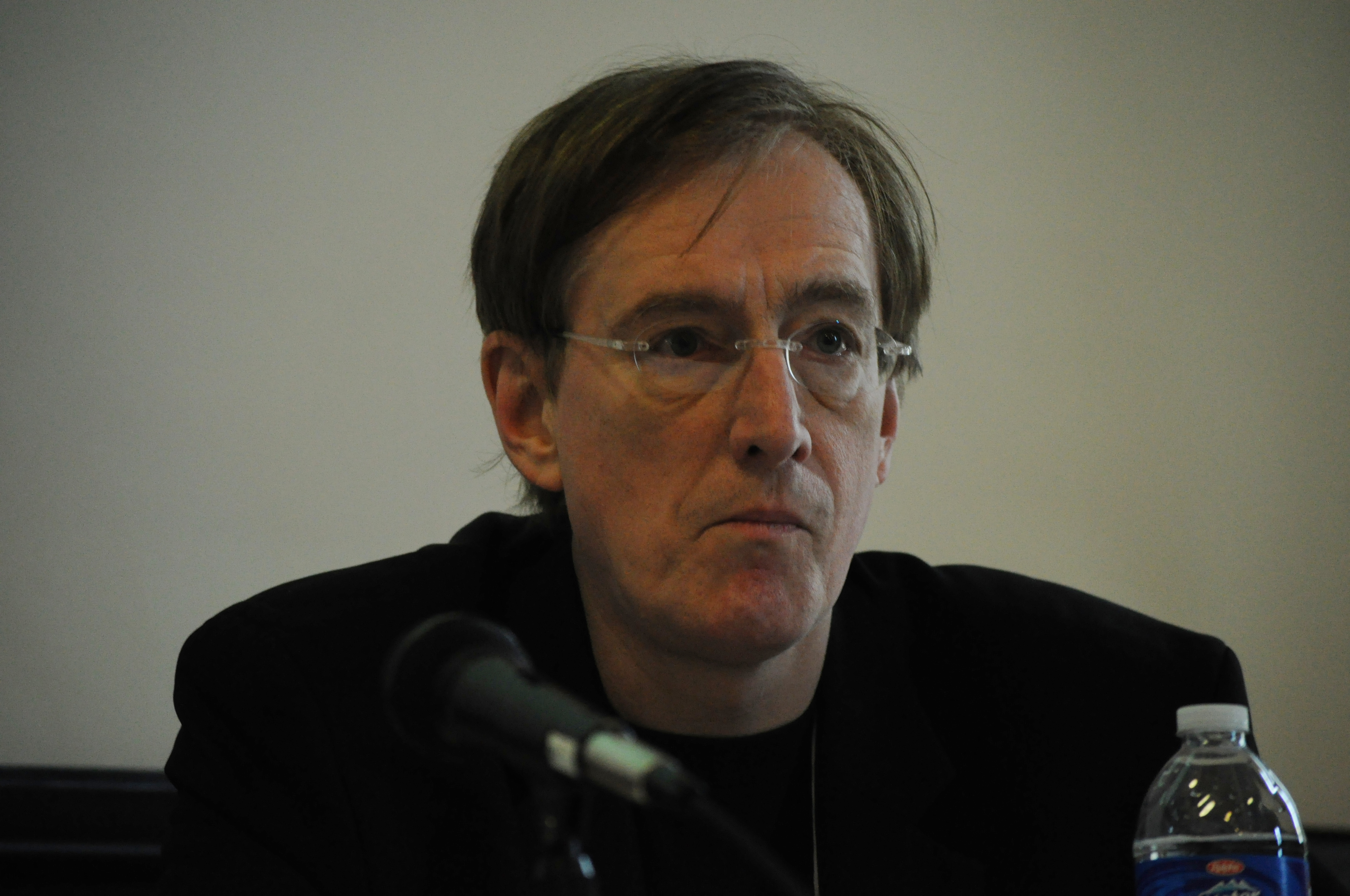 American composer, musician, record producer and musicologist Ned Sublette at the 2011 Pop Conference at UCLA.